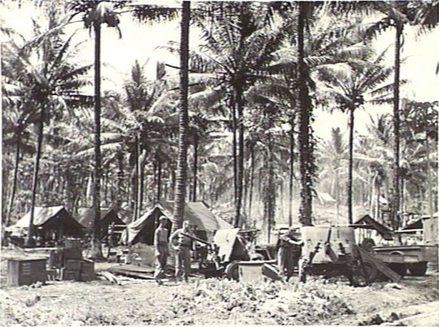 Soldiers from the Australian 14th/32nd Infantry Battalion's headquarters company at Cutarp Plantation, in Jacquinot Bay, New Britain, December 1944